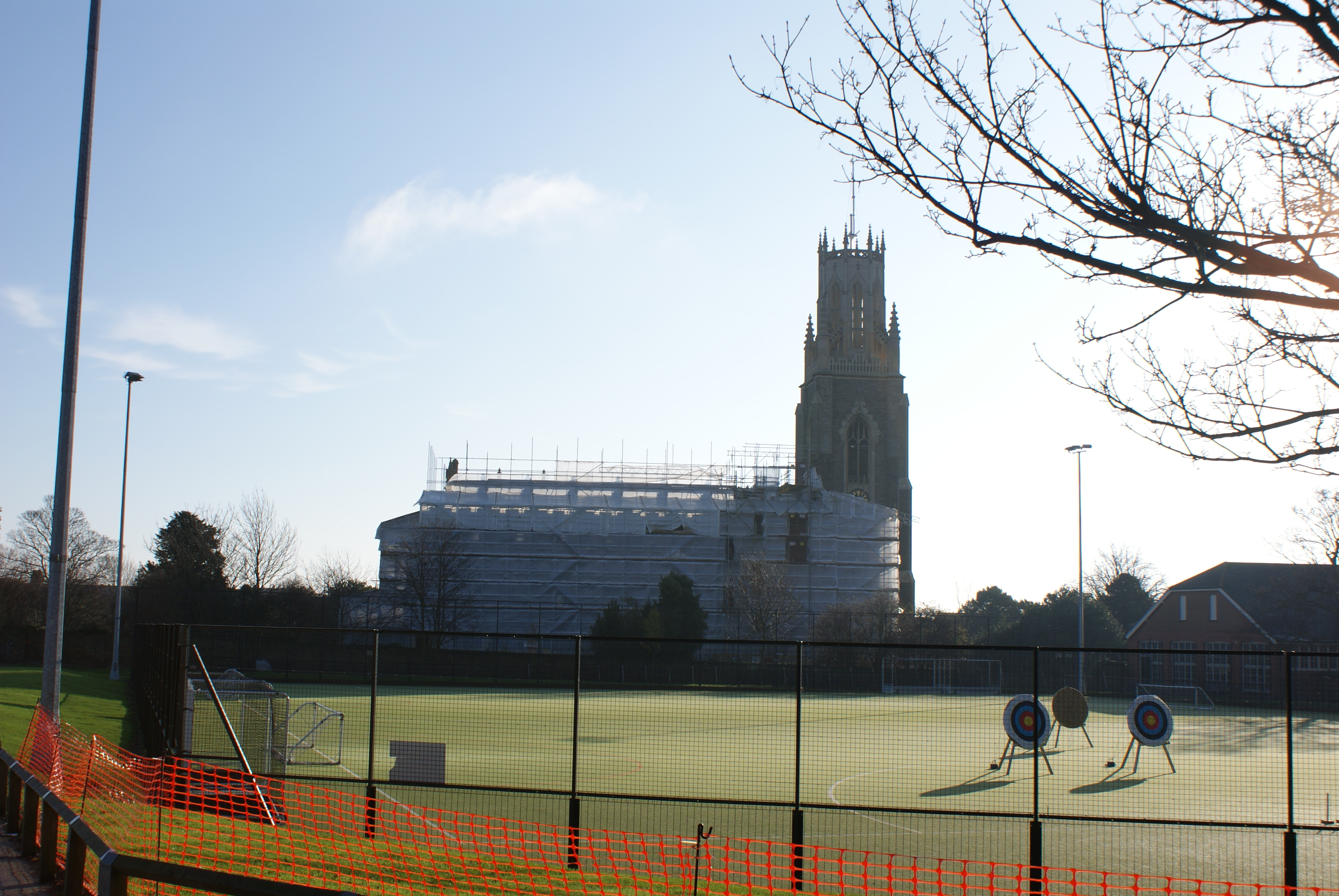 St. Georges Church - Ramsgate